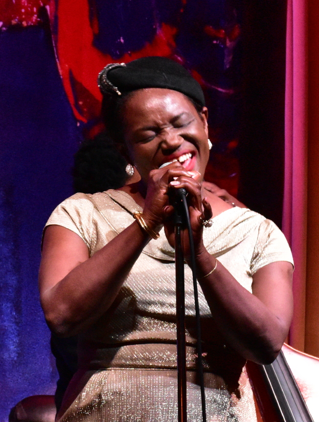 A 2018 live performance by jazz singer Douye